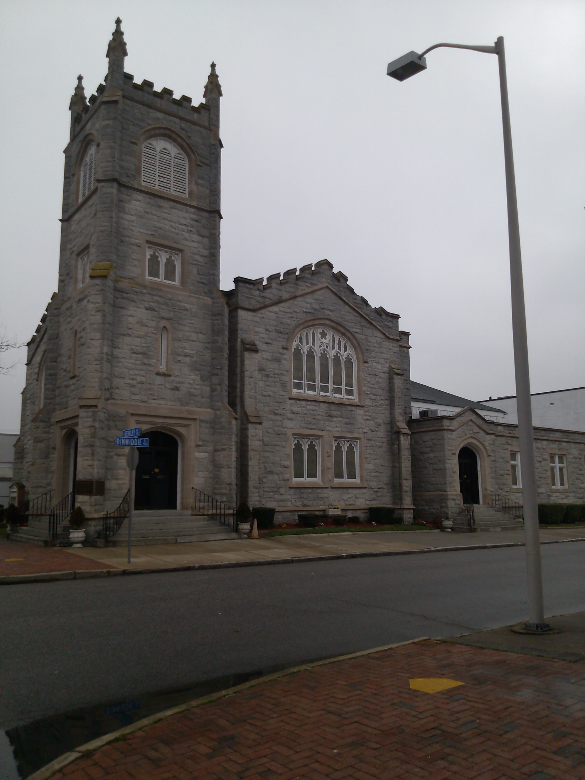 Is the former Memorial Methodist Episcopal Church (525 Dinwiddie Street). This Gothic-revival building is distinguished by its granite construction and cruciform plan. It was designed in 1899-1900 by noted architect James E. R. Carpenter with the assistance of Charles J. Calrow.